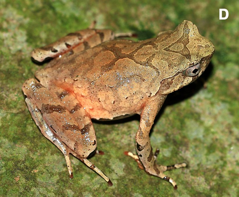 Megophrys lini, female paratype, Figure 5D from Wang, Y. et al. Morphology, molecular genetics, and bioacoustics support two new sympatric Xenophrys toads (Amphibia: Anura: Megophryidae) in Southeast China. PLoS ONE 9, e93075 (2014)